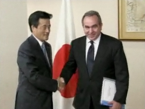 Kurt M. Campbell, Assistant Secretary of State for East Asian and Pacific Affairs, met Katsuya Okada, Minister for Foreign Affairs, in Tōkyō Metropolis, on September 18, 2009.